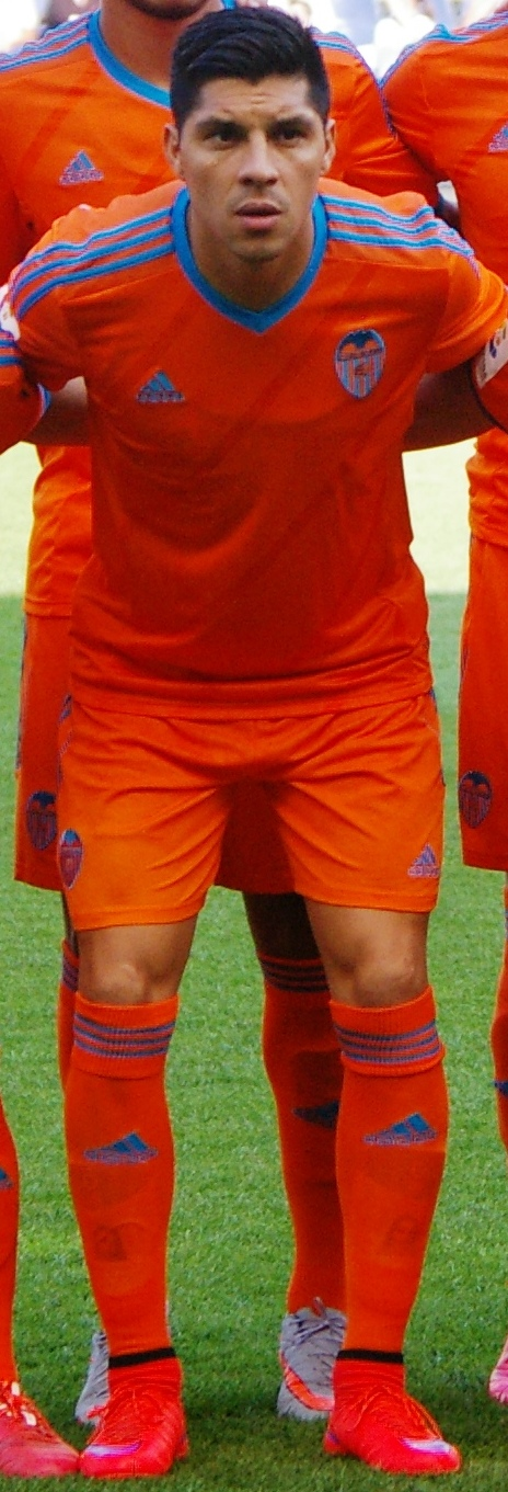 tournament with SV Werder Bremen, FC Southampton, Red Bull Salzburg and Valencia CF preseason friendly matches